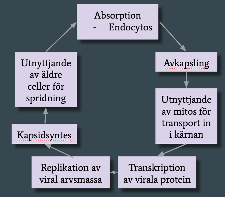 General summary of the life-cycle of papillomaviruses in Swedish